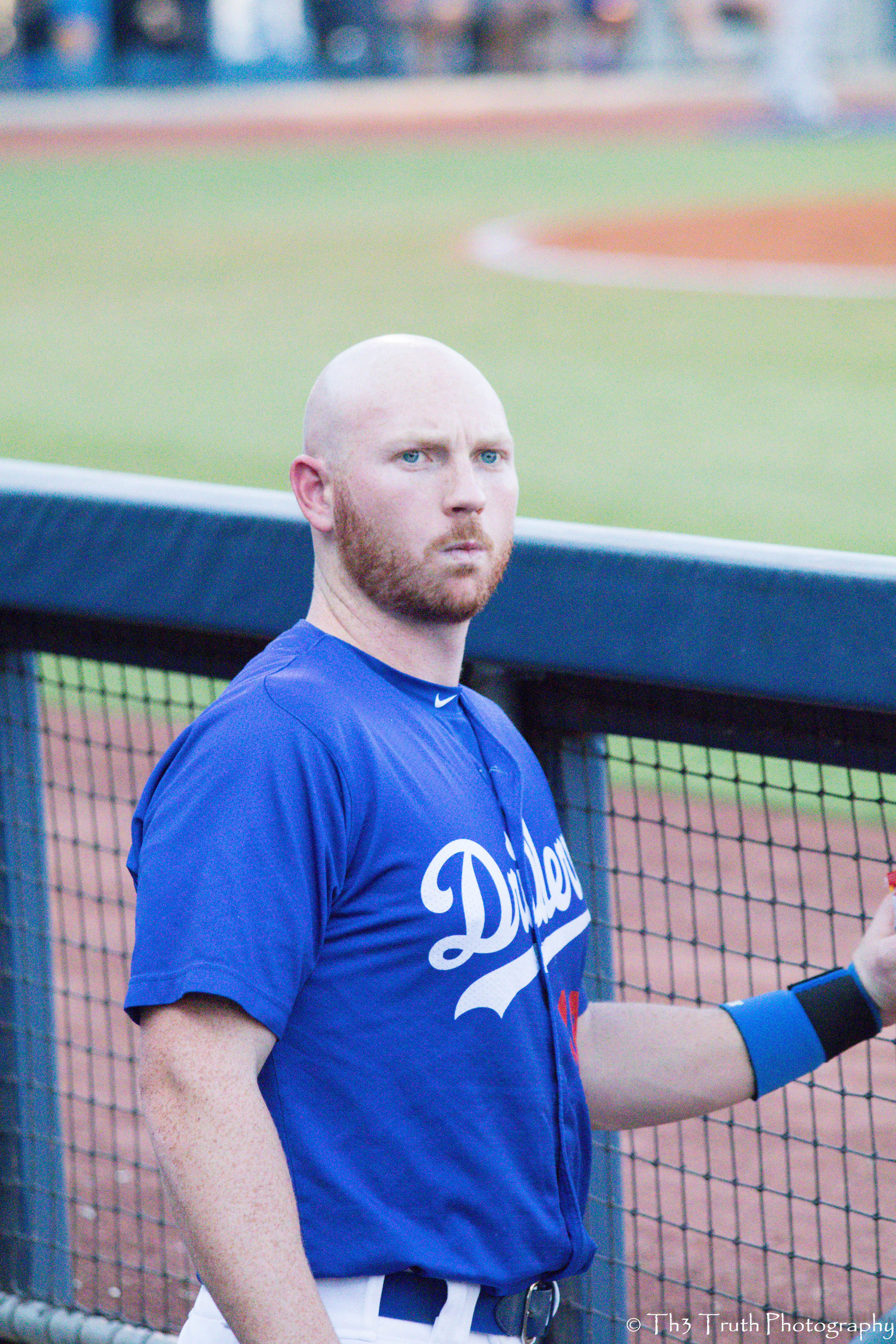 Garlick in 2016